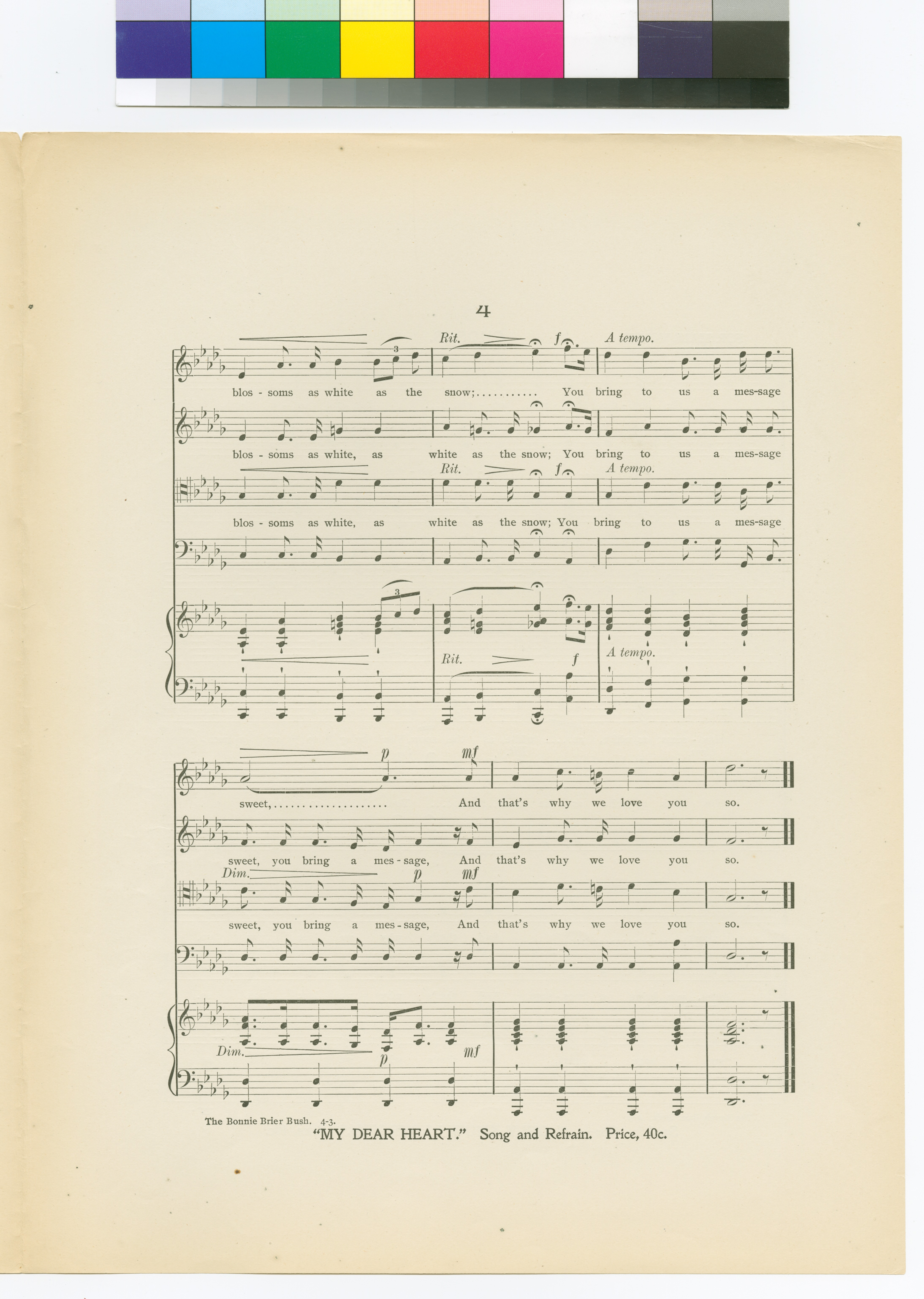 Caption title: The bonnie brief bush. Chorus arranged for 4-part chorus (2 tenors, 2 basses). Summary: The brief bush serves as a spot where all types of people converge; some pray to God, some go to depart; the narrator looks forward to meeting them in Paradise. Statement of responsibility : words by Adam Craig ; music by H. Gabriel.